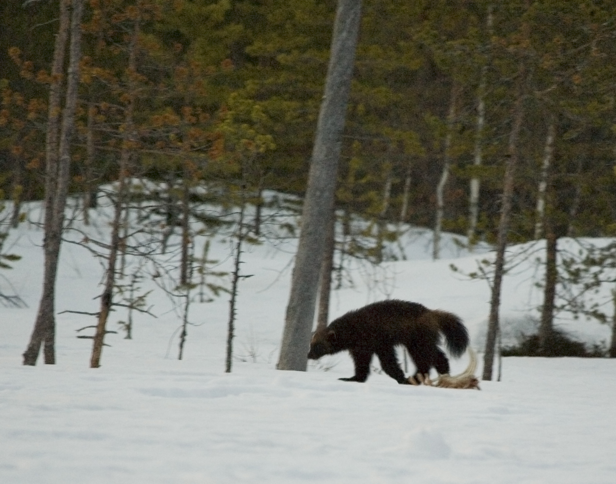 Wolverine (Gulo gulo).